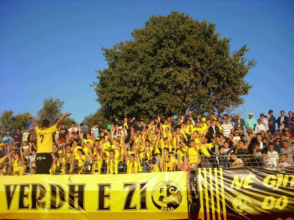 Furia Verdhezi